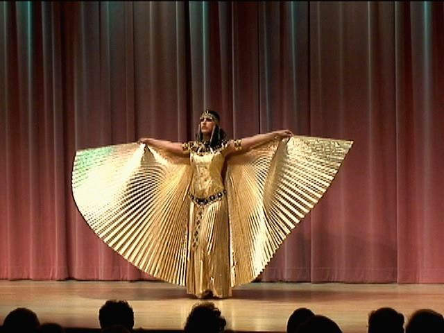 This is an image of dancer Layla Taj performing before an audience.